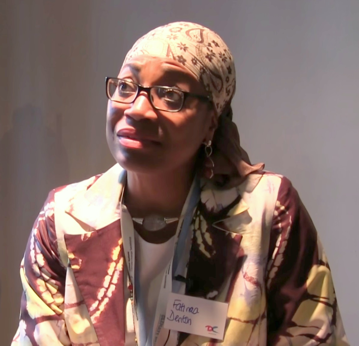 Fatima Denton, a member of IIED's LDC Independent Expert Group (IEG) and director of the African Climate Policy Centre at the UN Economic Commission for Africa (UNECA), arguing that the Least Developed Countries (LDCs) are showing that action on climate change no longer needs to be seen as separate from development.